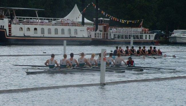 This is a piucture of Queen's University B.C against Southampton University B.C in the Temple Challenge Cup at the Henley Royal Regatta in 2003.